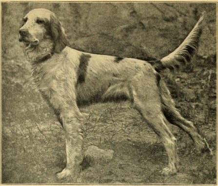 English setter - Rodfield's Pride, described as of Llewllin type